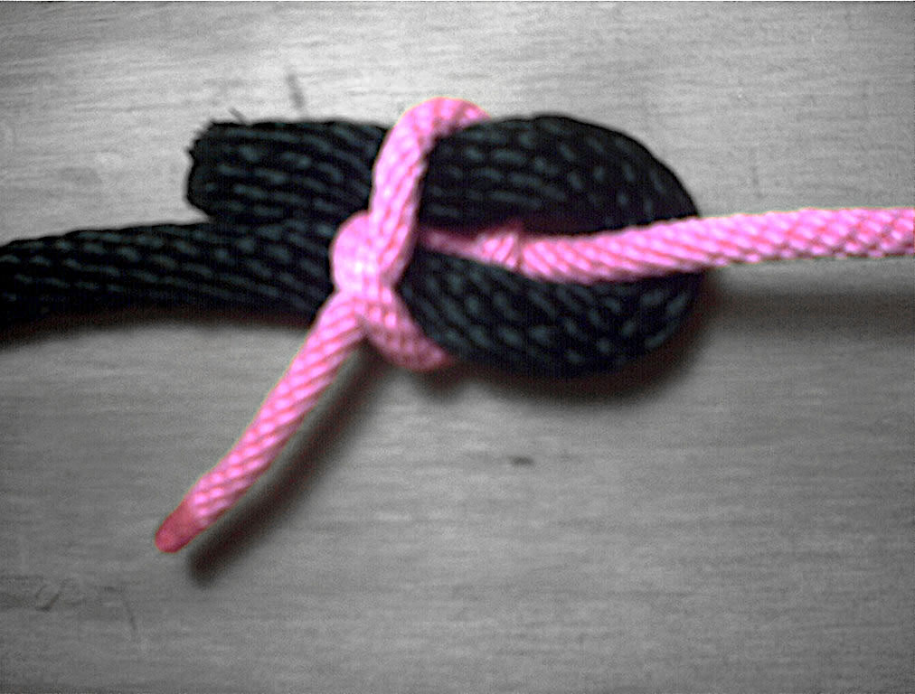 photo taken by me on aug 24 2004